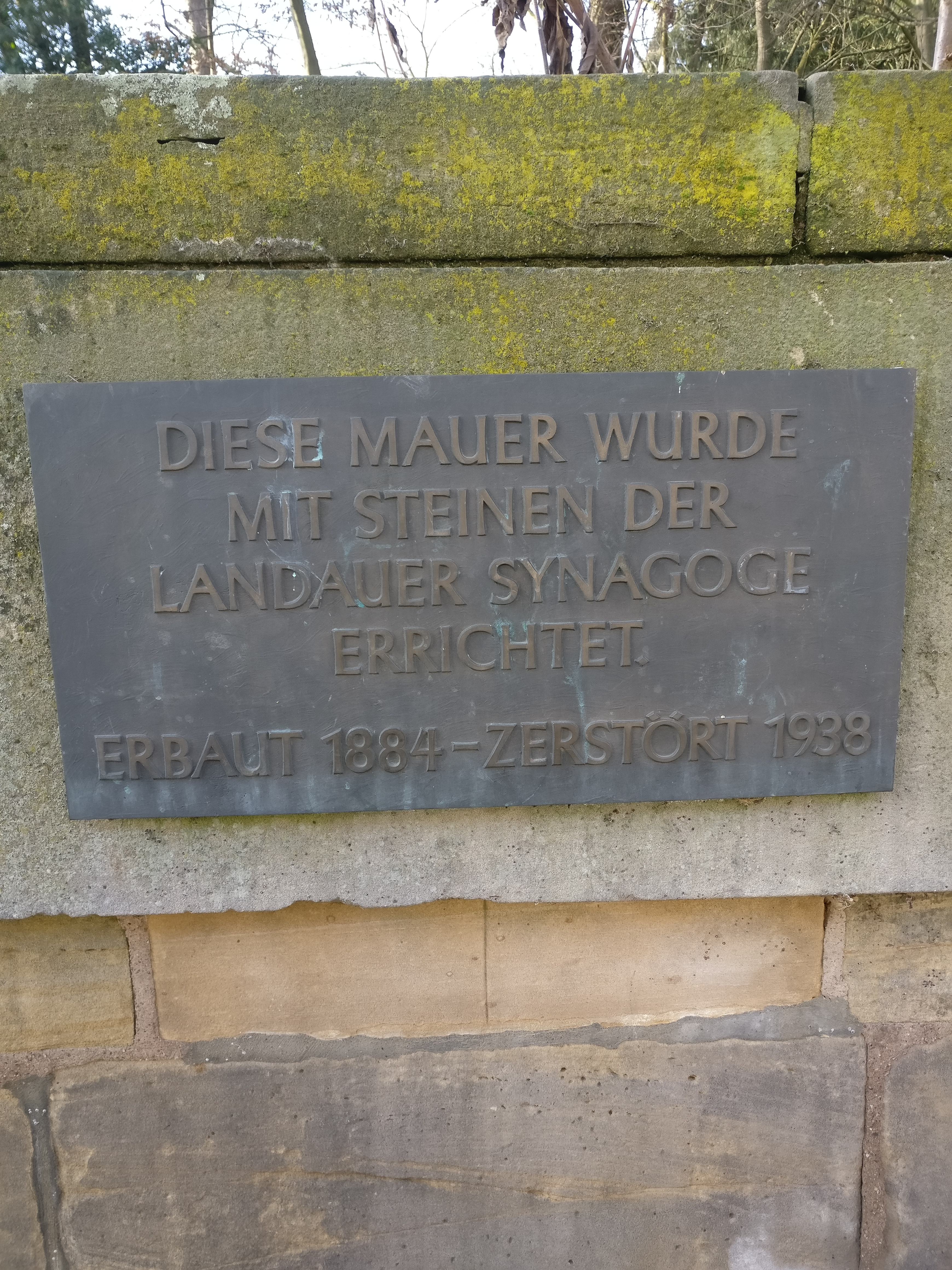 Synagogue Landau i. d. Pfalz (Germany) - bricks from destroyed synagogue